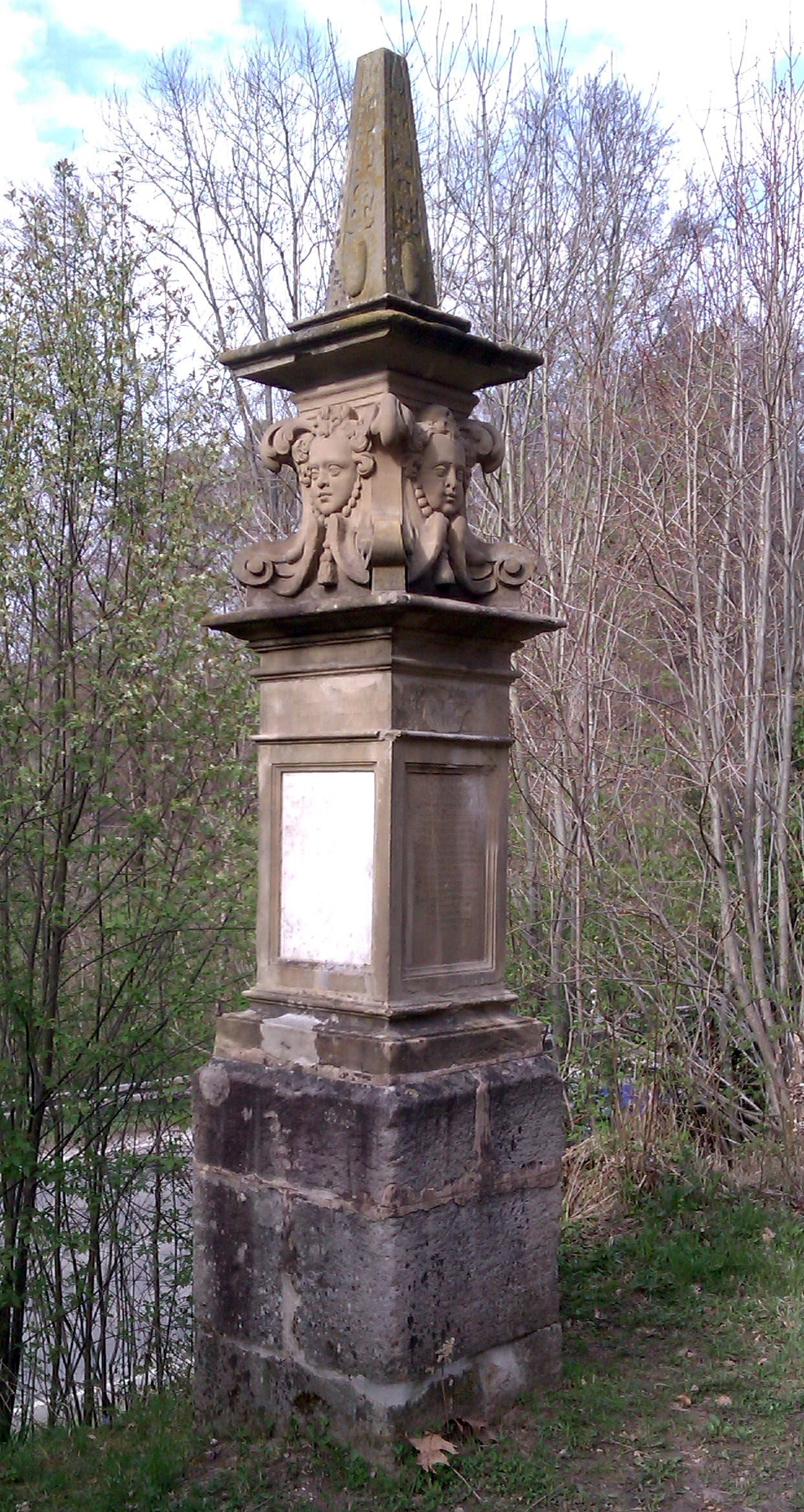 Memorial to Veit Demmler (1622), Stuttgart, full view from left front